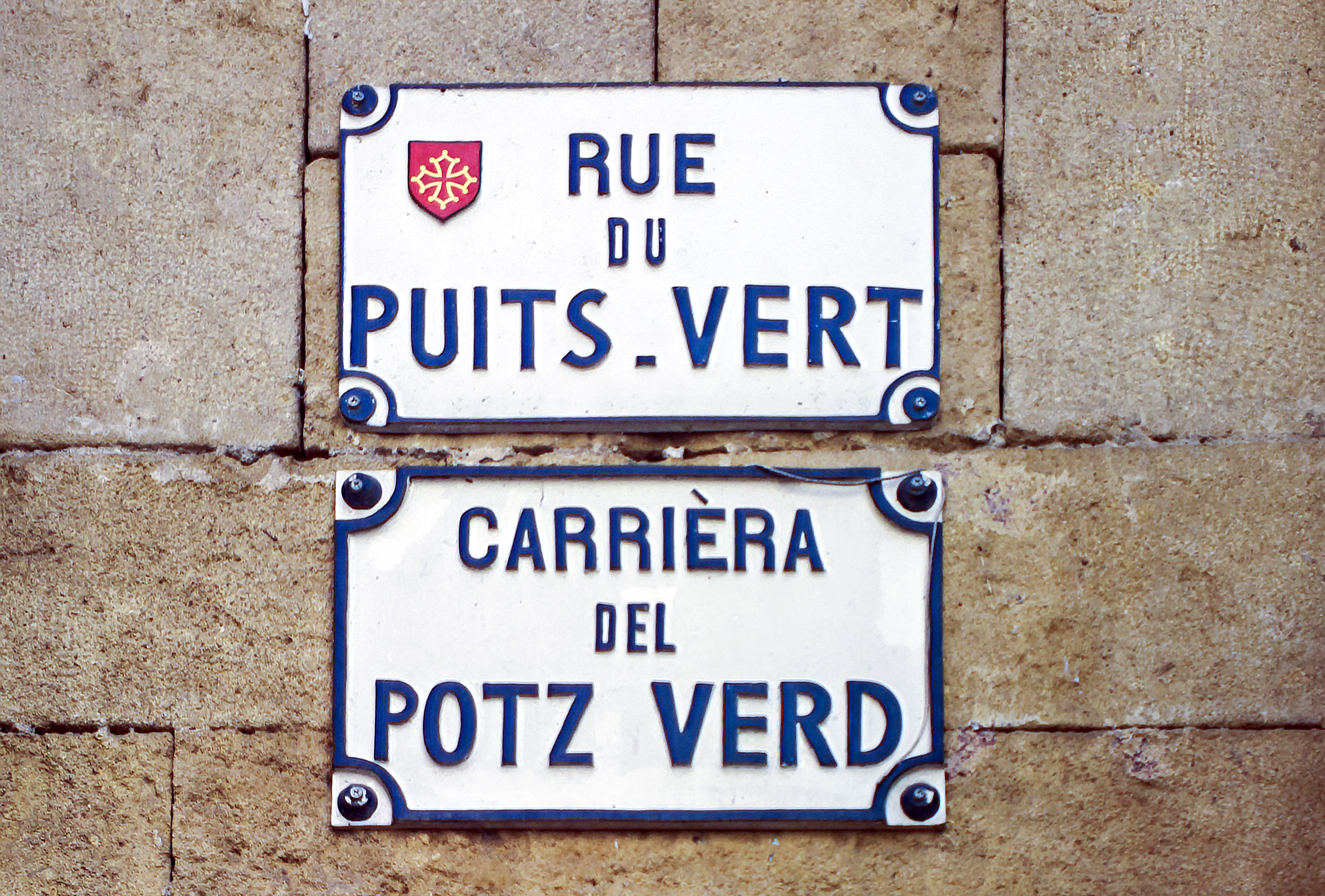 Street name sign in Toulouse. They have the particularity of being: in French and Occitan. Rue du Puits-Vert .